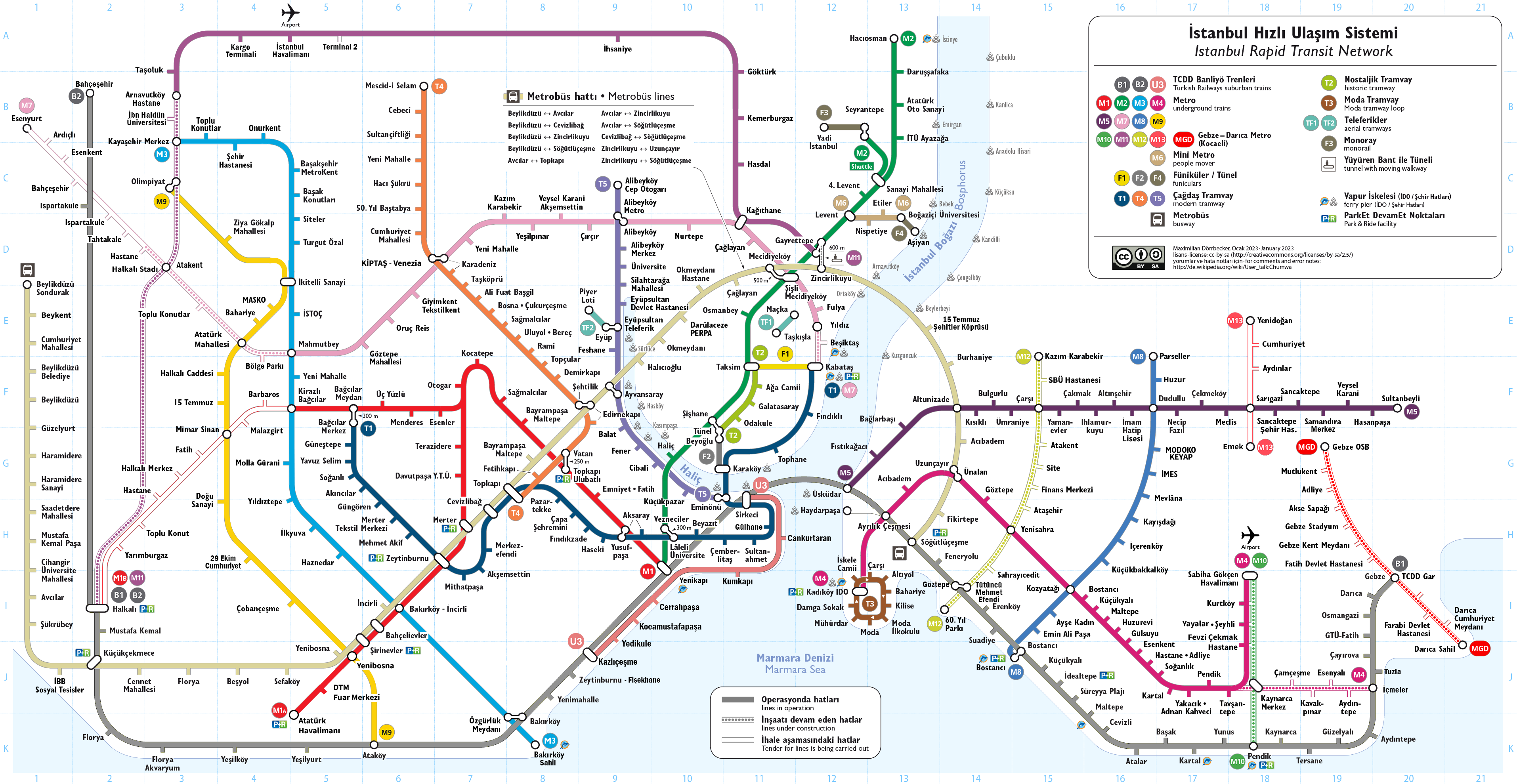 Istanbul Rapid Transit Map (subway, tramway, suburban trains, Busway, funiculars and aerial tramways)